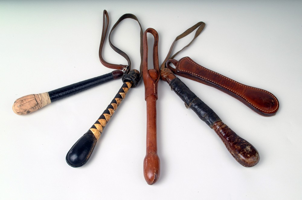 Five Alcatraz saps, also known as Billy Clubs, part of the Museum Collection.